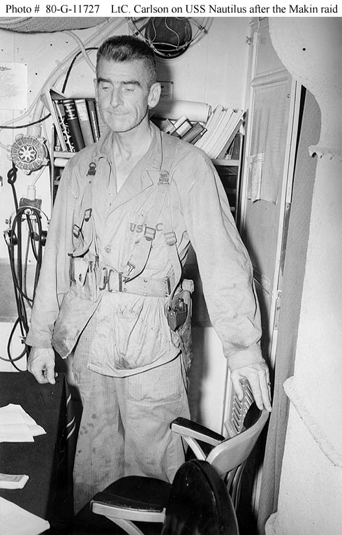 LtCol Evans Carlson, USMC, Carlson's Raiders after the Makin Island Raid of World War II; photo from the Naval Historical Center